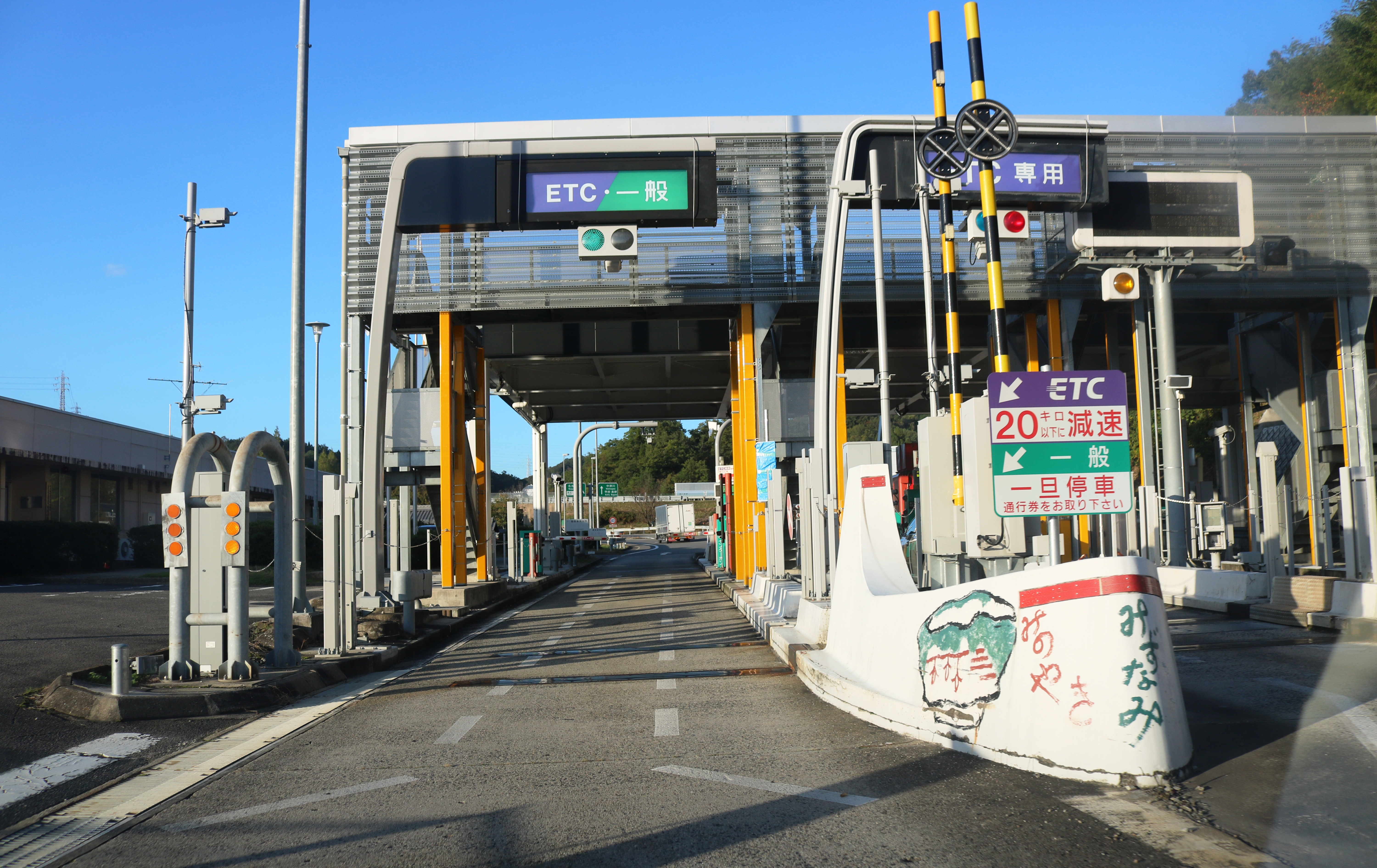 Entrance of Mizunami Interchange on Chūō Expressway in Mizunami, Gifu Prefecture, Japan.